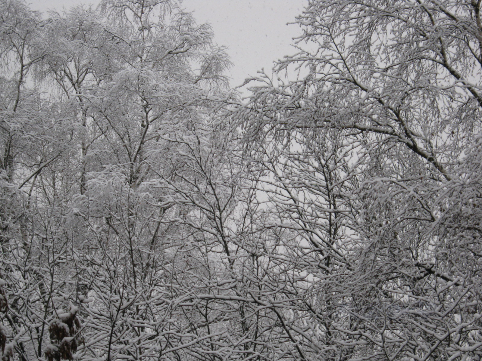 Winter trees. 17 November 2009.